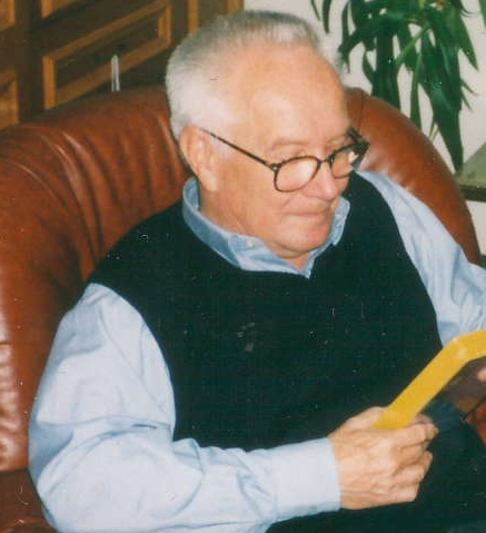 Film director Jaroslav Dudek